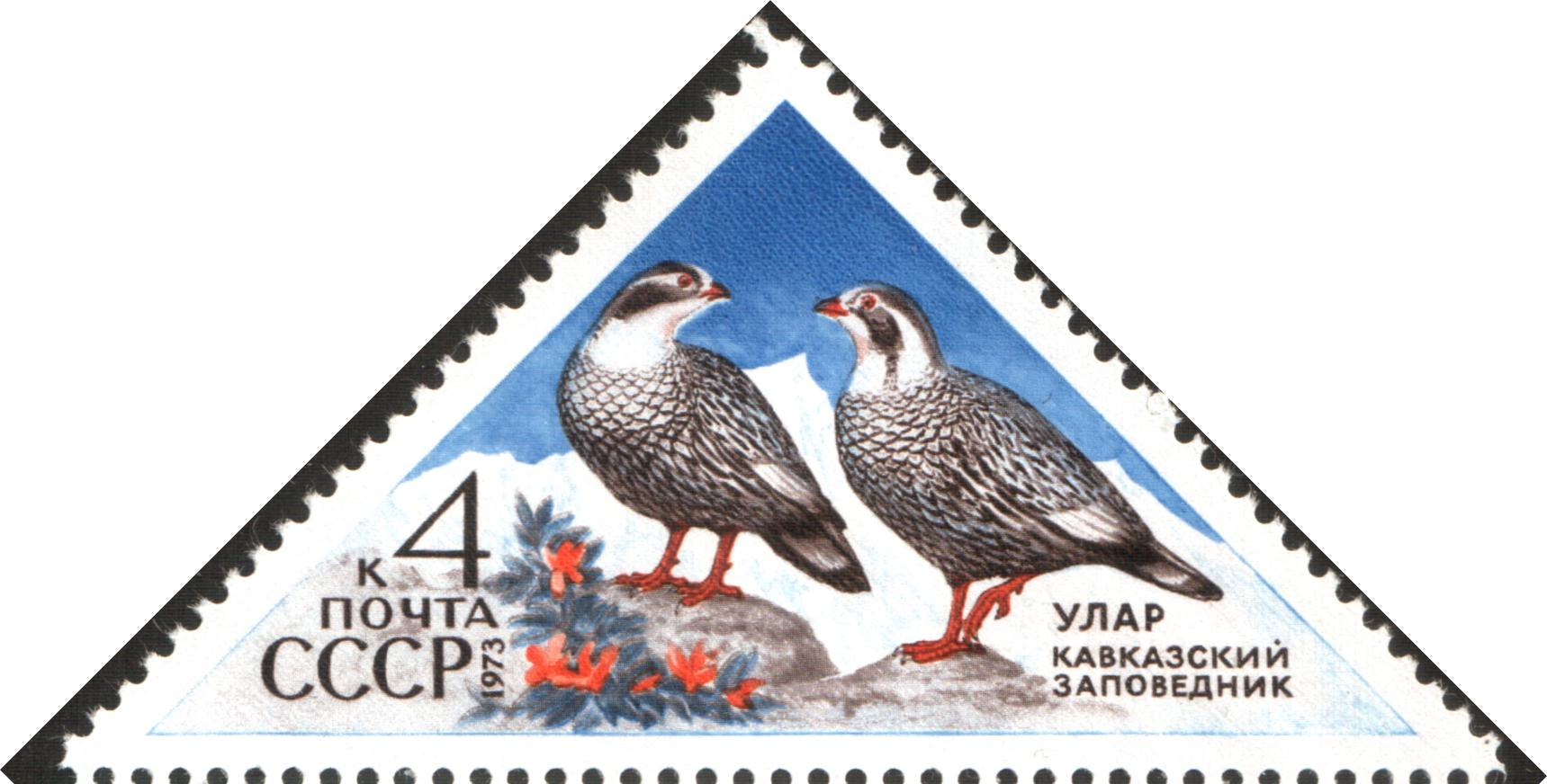 USSR stamp